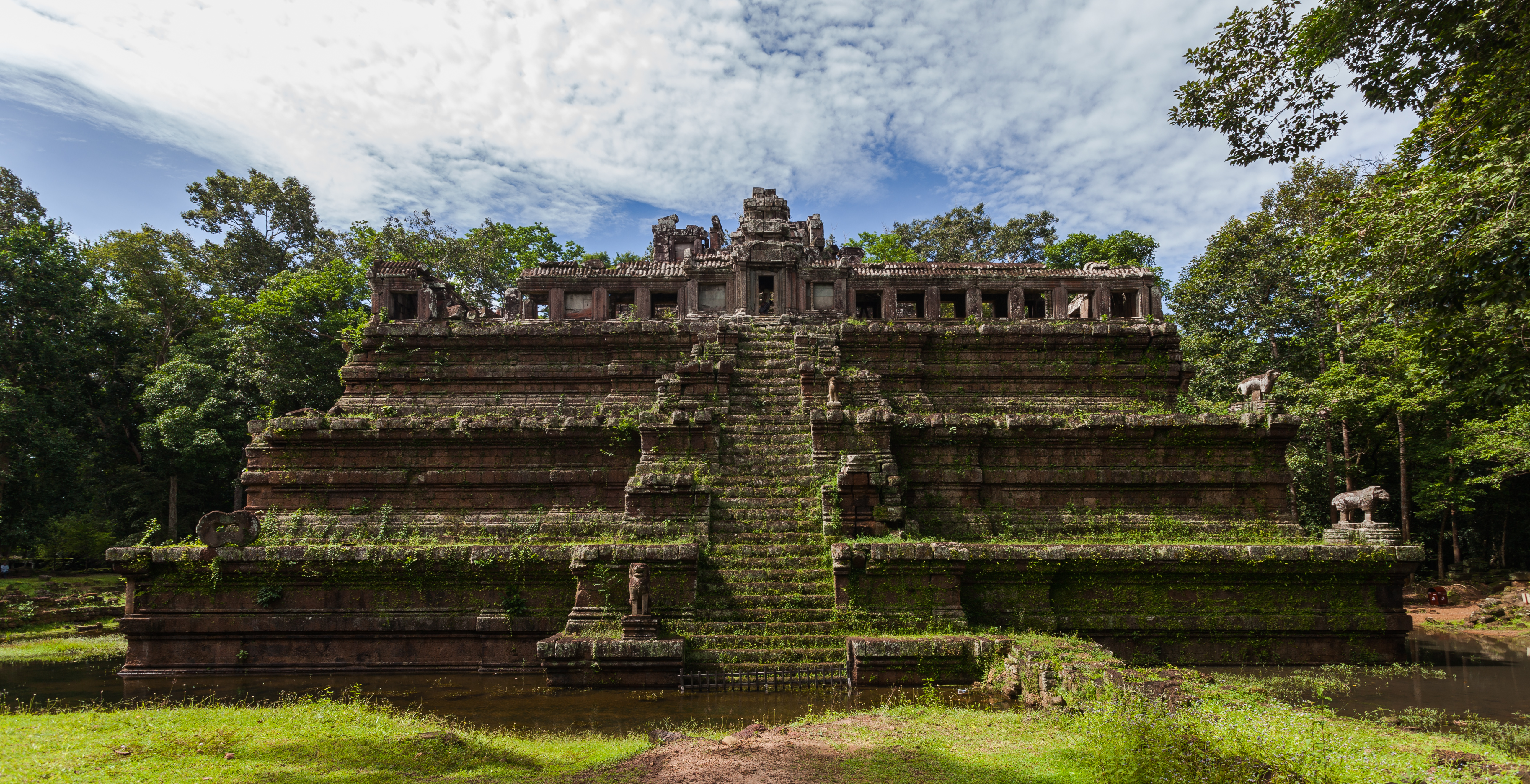 Phimeanakas, Khmer temple constructed in the 10th century, but underwent important modifications as it became the official site of king Suryavarman I, located in the ancient city of Angkor, today Cambodia.